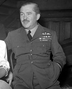 Air Marshal William Avery Bishop at the Celebrity Parade